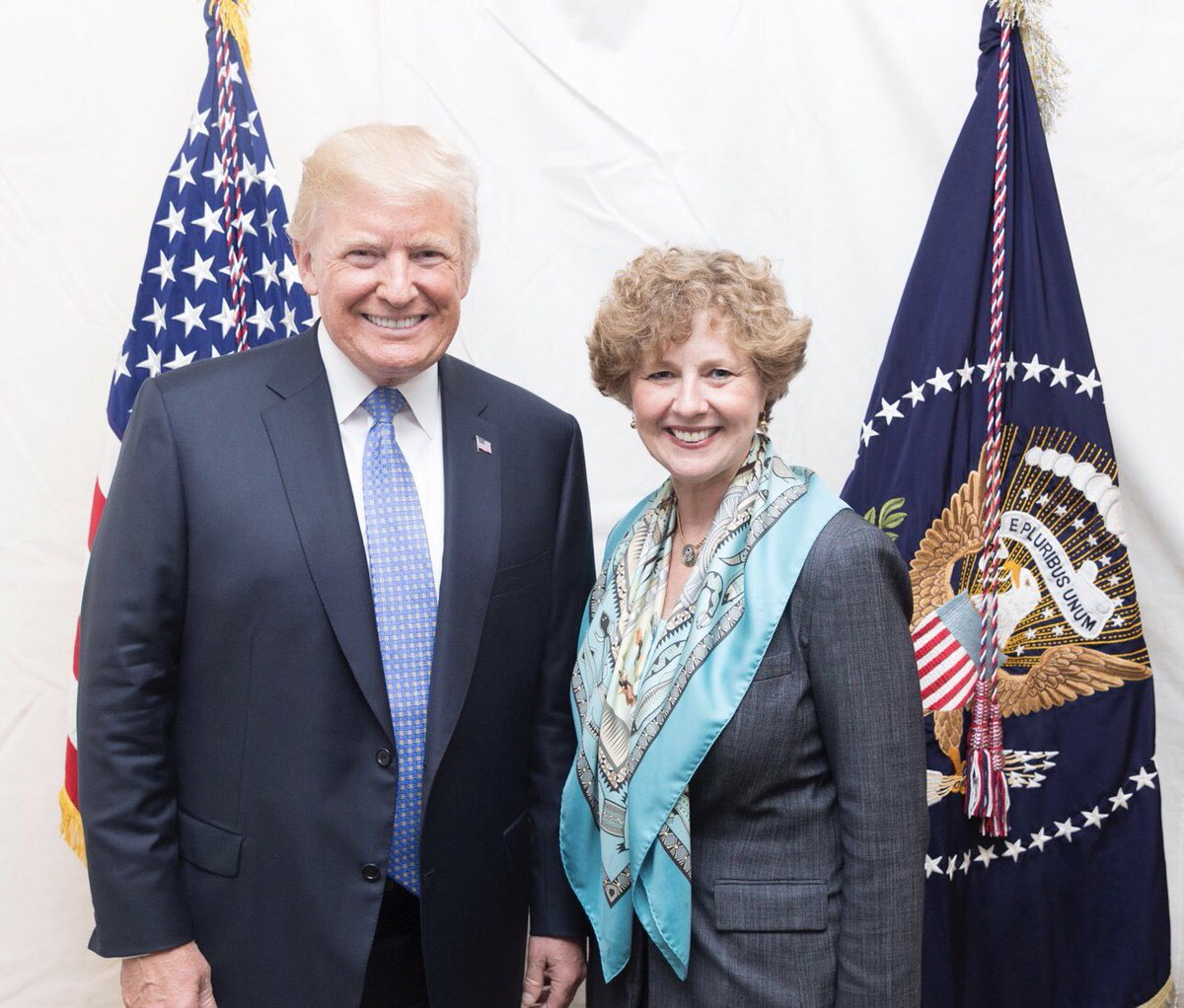 President Donald Trump with Congresswoman Susan Brooks